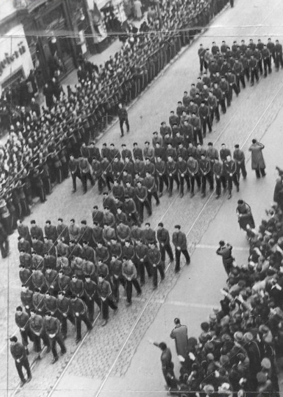 Funeral of Romanian fascist leader Corneliu Zelea Codreanu (1899 - 1938) in 1940.